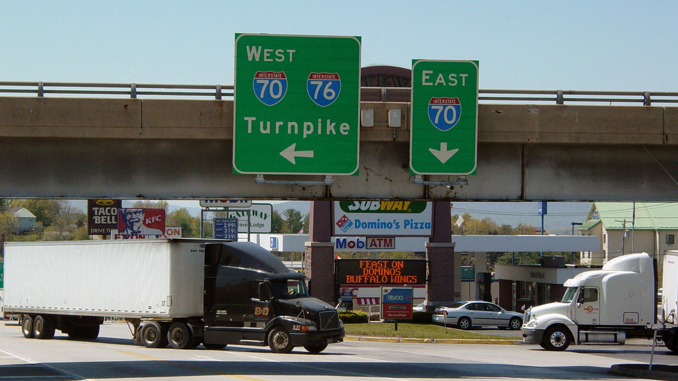 Breezewood interchange for the Pennsylvania Turnpike, as seen from US 30 facing westbound.